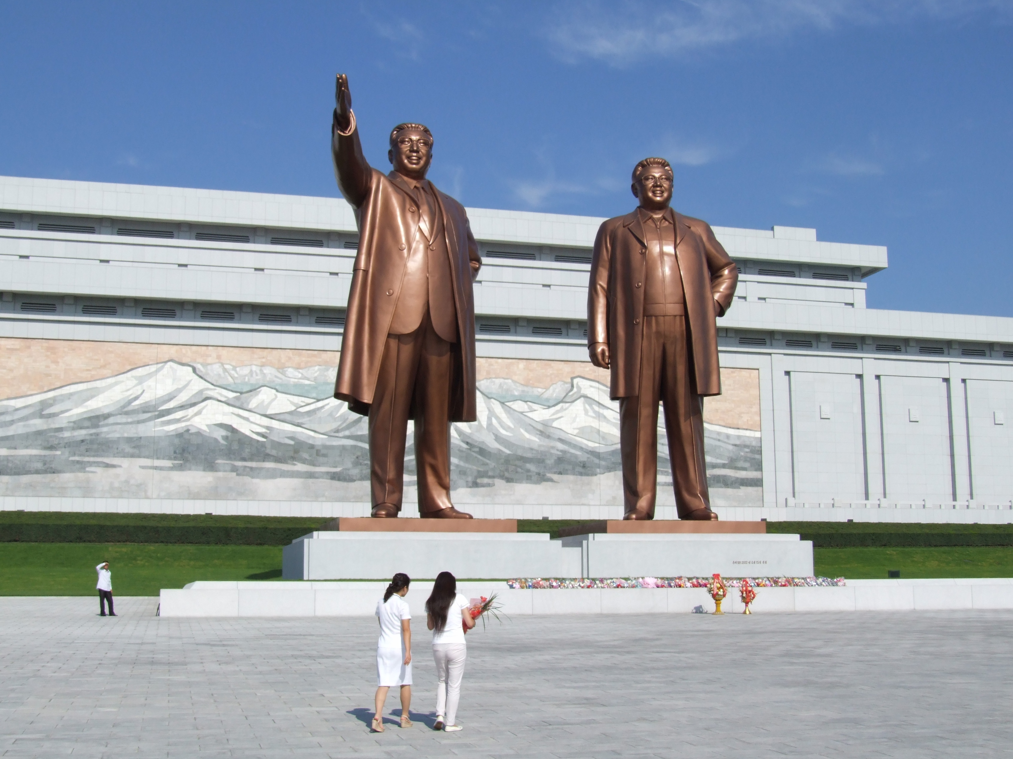 Mansudae Grand Monument